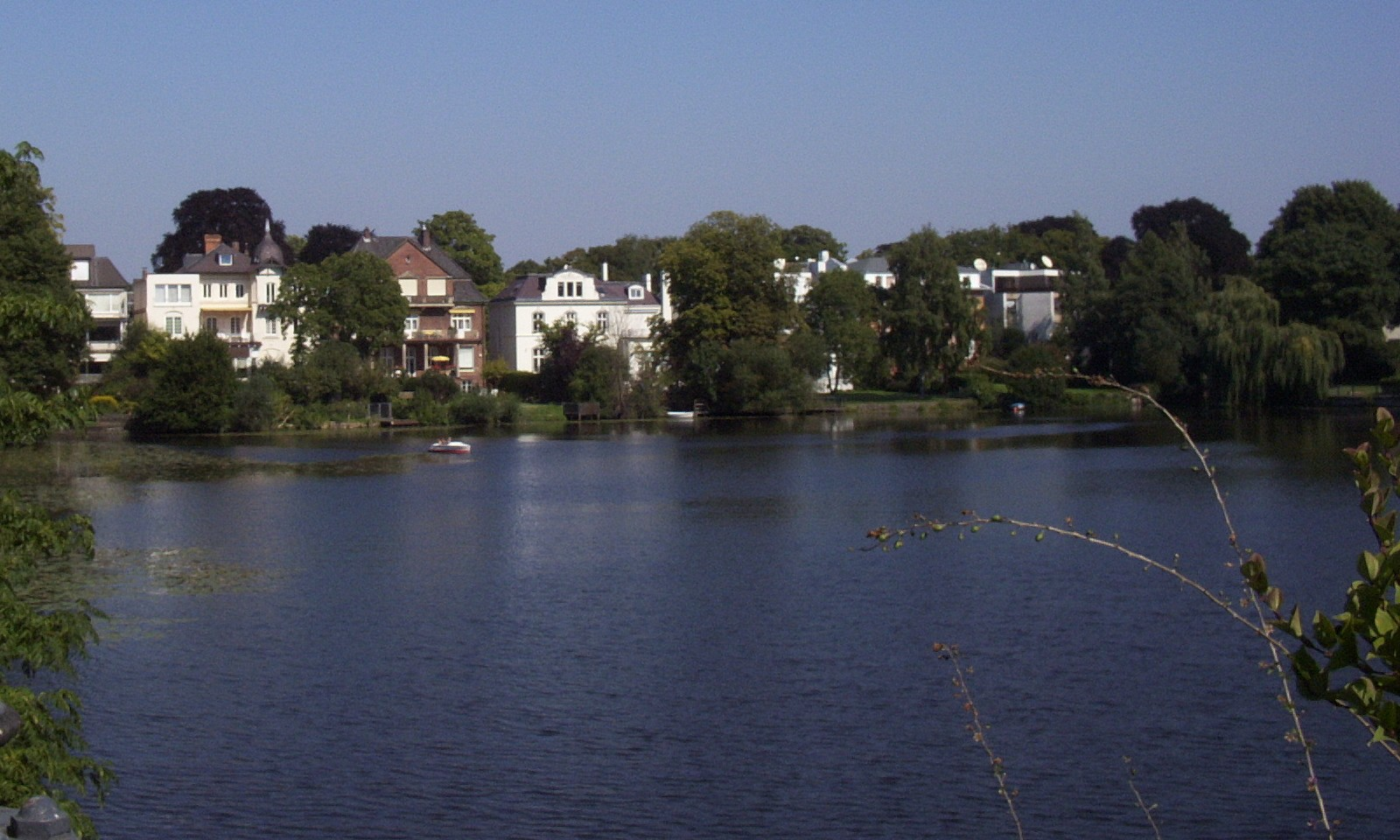 Small lake Feenteich in the Uhlenhorst district of Hamburg, Germany.